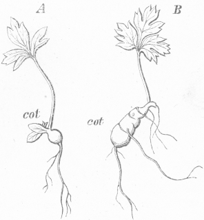 Anemone nemorosa; A 1st year seedling; B older seedling in May; cot cotyledonsor place of cotyledons